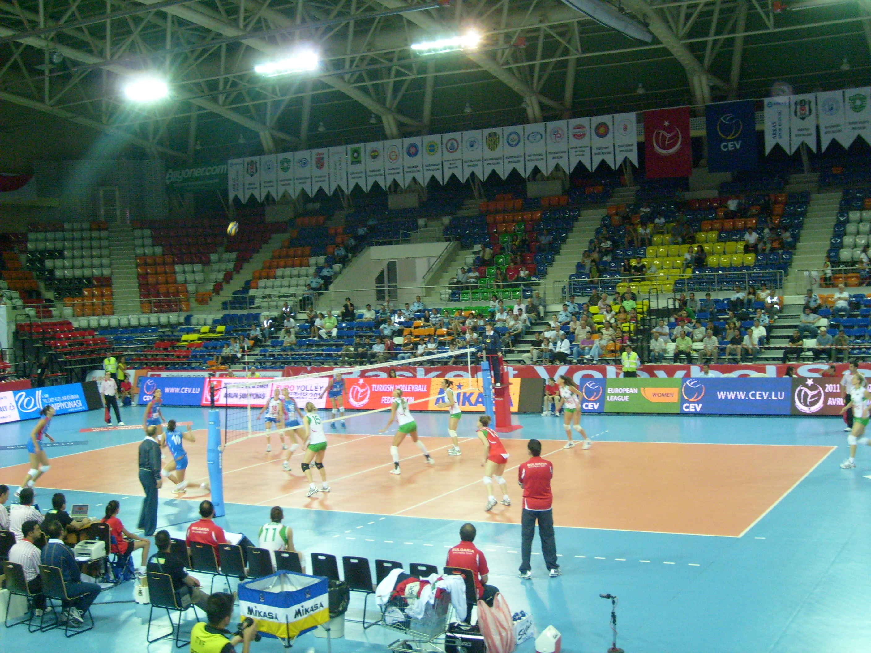 2010 Women's European Volleyball League final match Serbia vs Bulgaria 3-1 (25–20, 25–20, 16–25, 25–23).